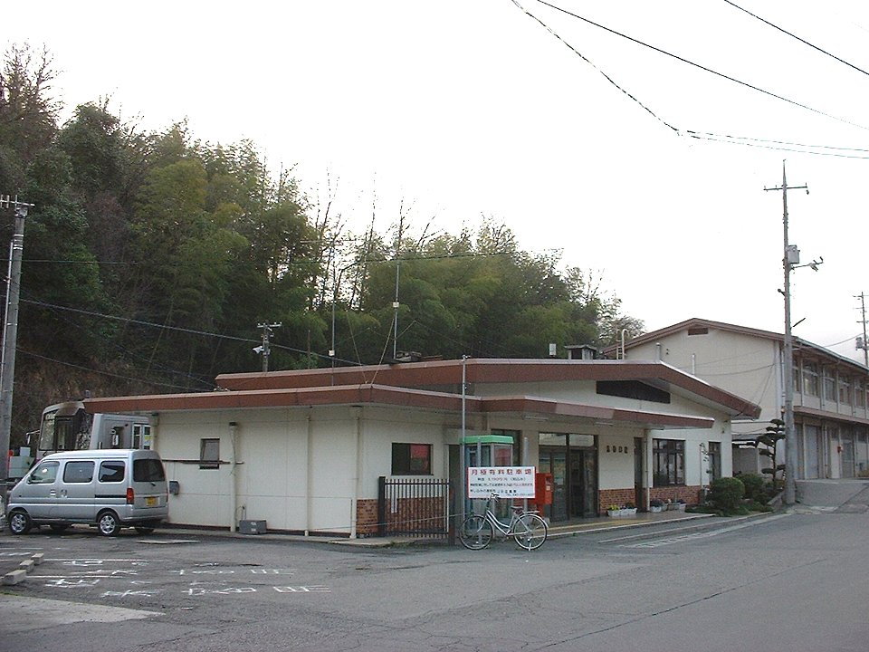 Geibi Line Shiwaguchi Station, taken March 31, 2004 by Bakkai (retouched)